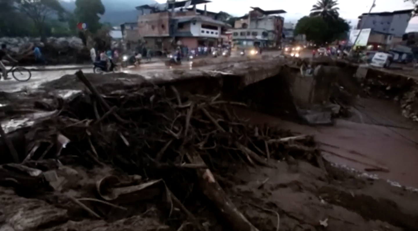 Debris left behind in Mocoa following catastrophic flash flooding and mudslides